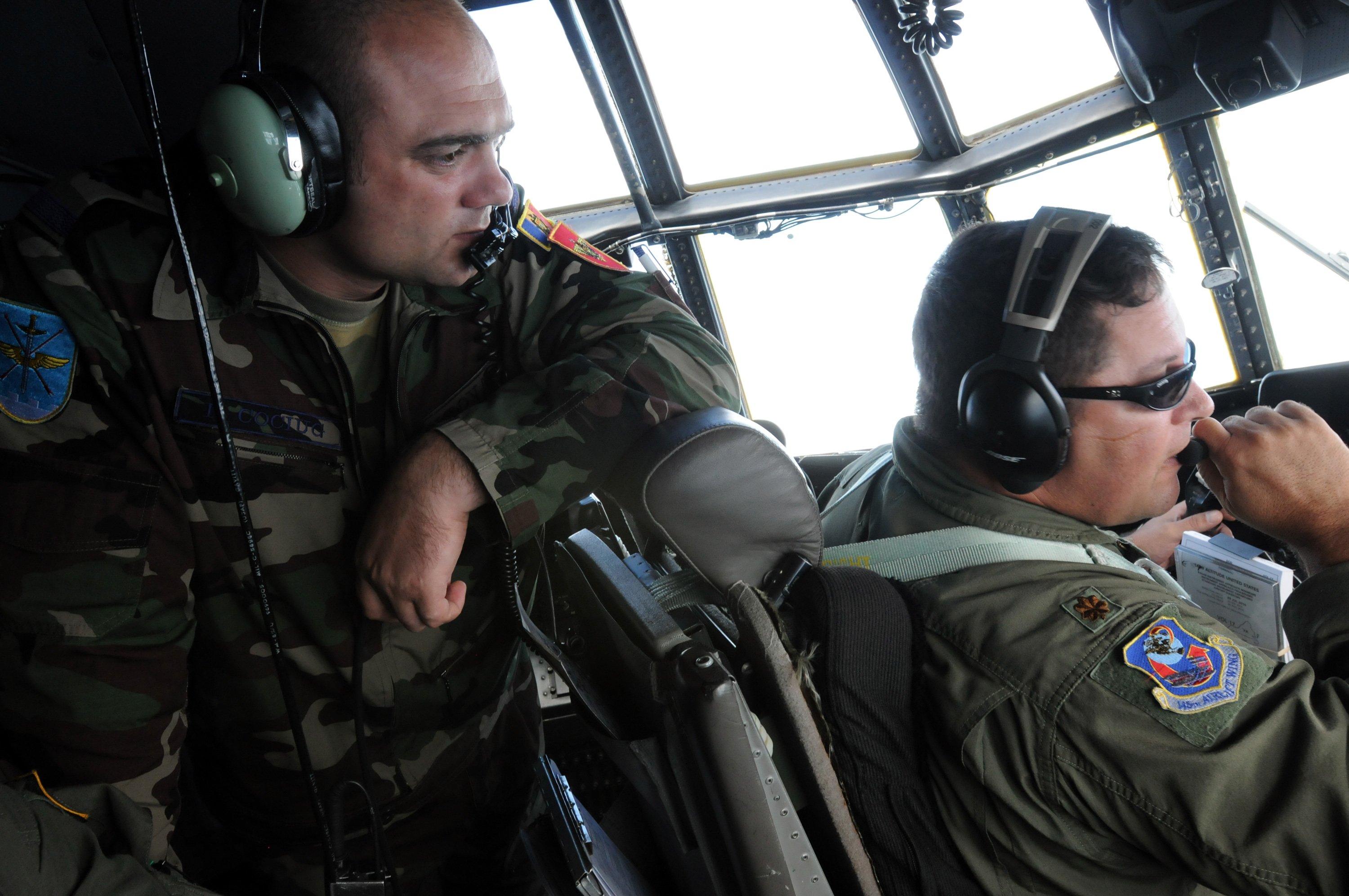 A North Carolina National Guard C-130 pilot talks to Moldovan Lt. Col. Ion Vulpe during a medical evacuation check ride over North Carolina July 29, 2010. Vulpe spent a week with Airmen assigned to the 156th Aeromedical Evacuation Squadron to learn medical evacuation techniques.